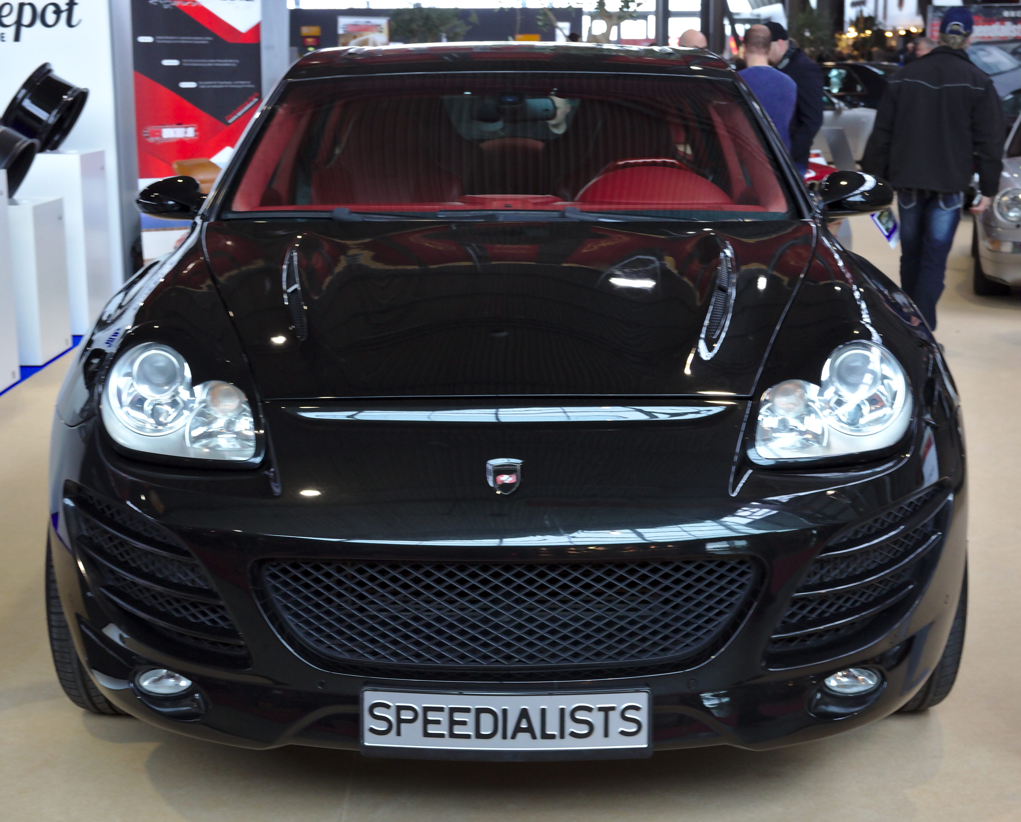 Rinspeed Chopster at Retro Classics 2018